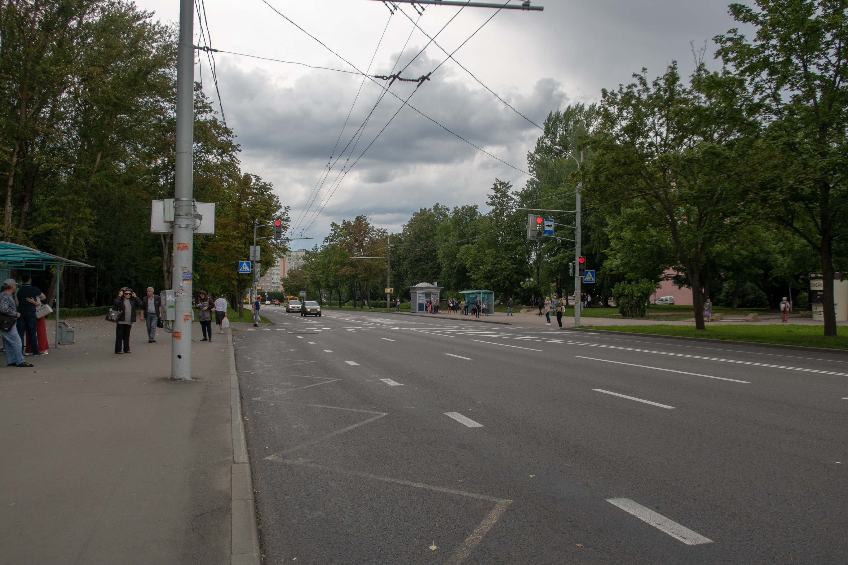 Karžanieŭskaha street (Minsk, Belarus)